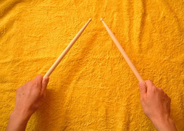 drum stick and hand